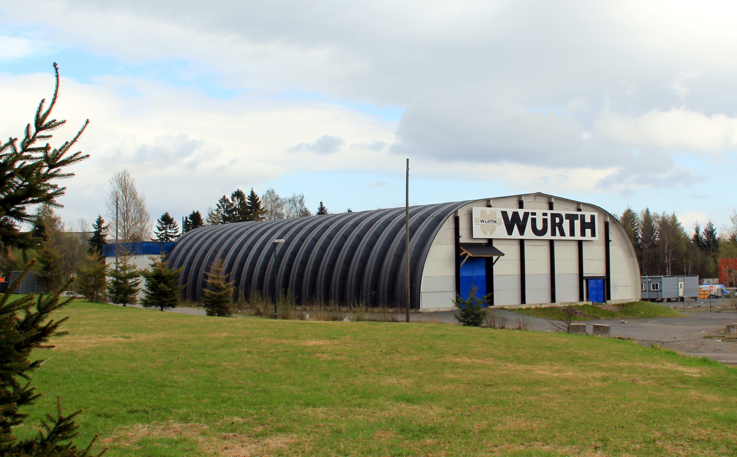 Veitvethallen, Sports venue at Veitvet in Oslo